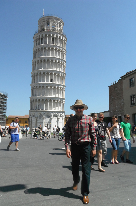 Dr Dragan Djokanovic in front of Leaning Tower of Pisa